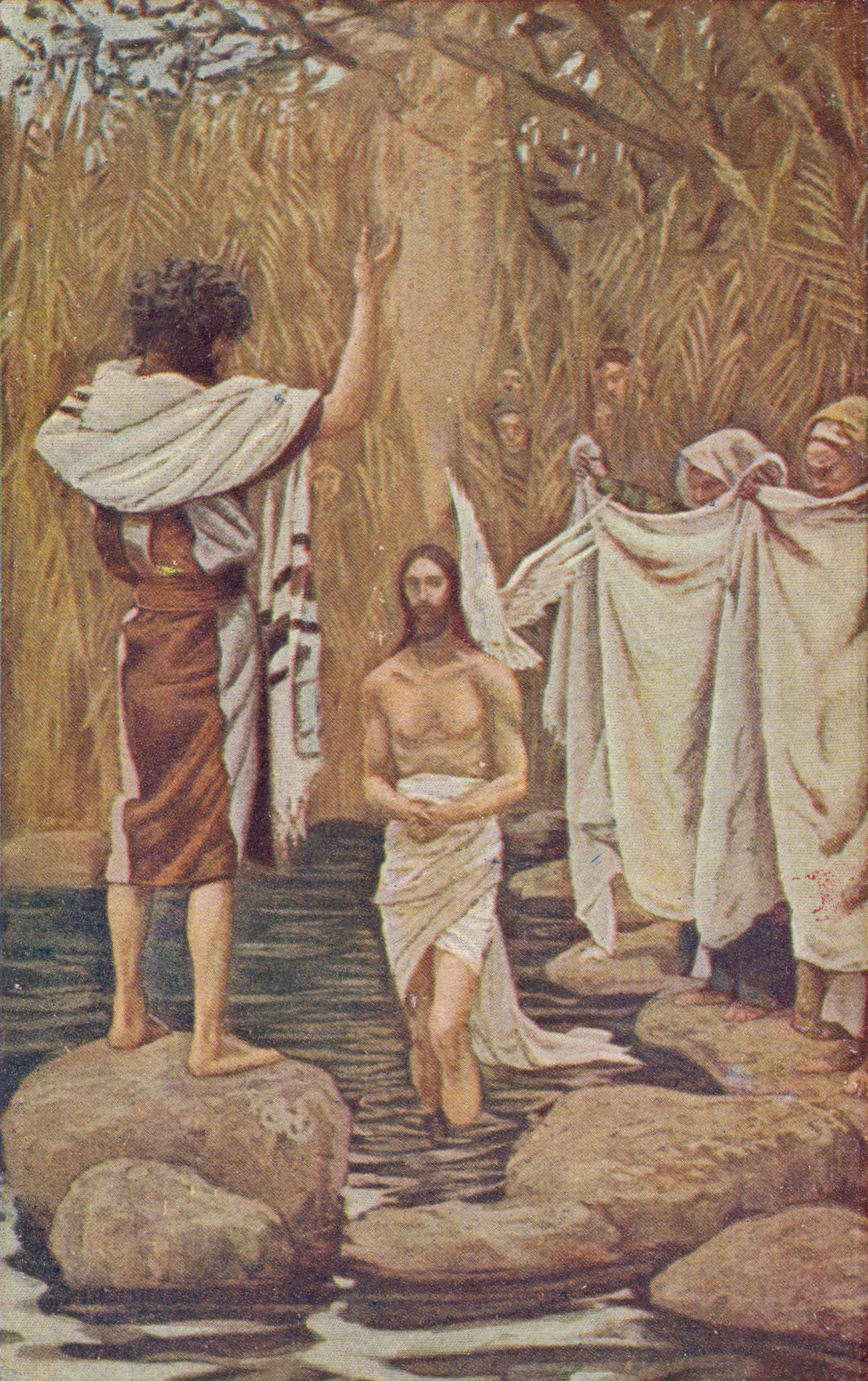 postcard, ca. 1916, of a painting by James Tissot